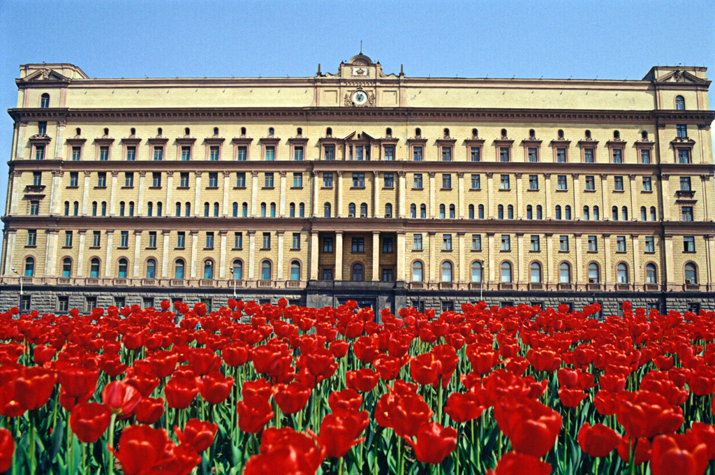 “Federal Security Service building on Lubyanka Square”. Federal Security Service, formerly called the State Security Committee [KGB], on Moscow's Lubyanka Square.